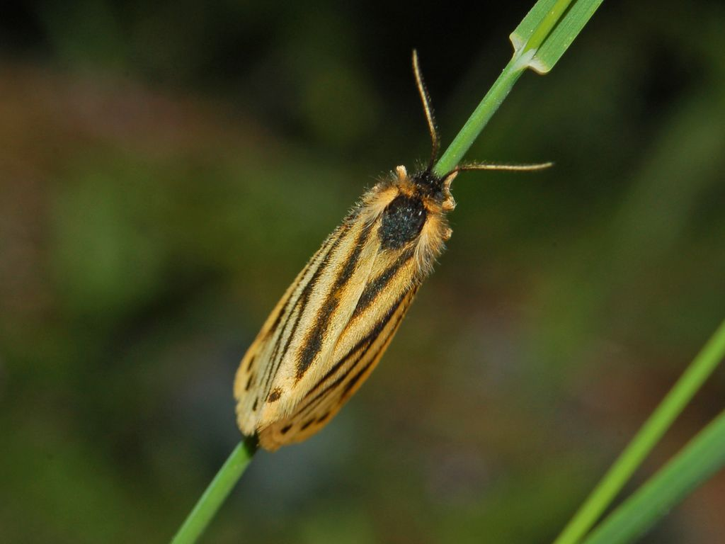 Arctiidae - Setina aurita